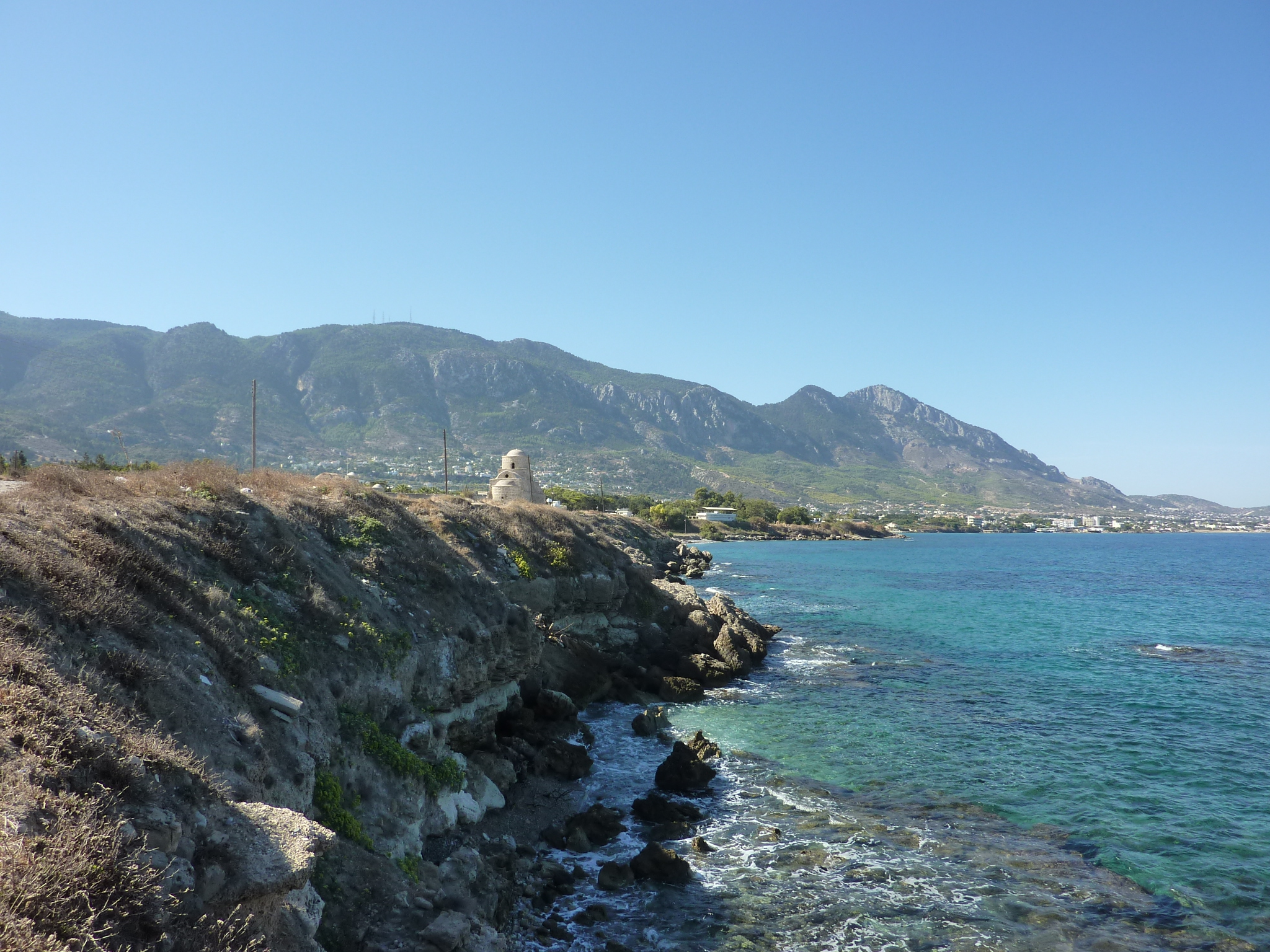 Saint Evlalios church, Lapta/Alsancak